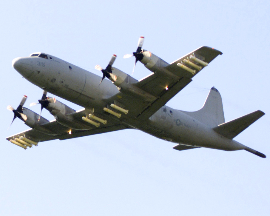 Brunswick, Me. (Sep. 19, 2002) -- A P-3C “Orion” attached to the “Tigers” of Patrol Squadron Eight (VP-8) heads to a bombing exercise loaded with MK-20 “Rockeye” cluster bombs. MK-20 cluster bombs deliver 247 bomblets, which, upon detonation, release a jet of super heated and pressurized gas, which can penetrate 10 inches of steel and 31 inches of reinforced concrete. The P-3C is a land-based, long-range, anti-submarine warfare (ASW) patrol aircraft. The weapon’s dispersion area is roughly the size of a football field. U.S. Navy photo by Photographer’s Mate Airman Shannon Smith. (RELEASED)